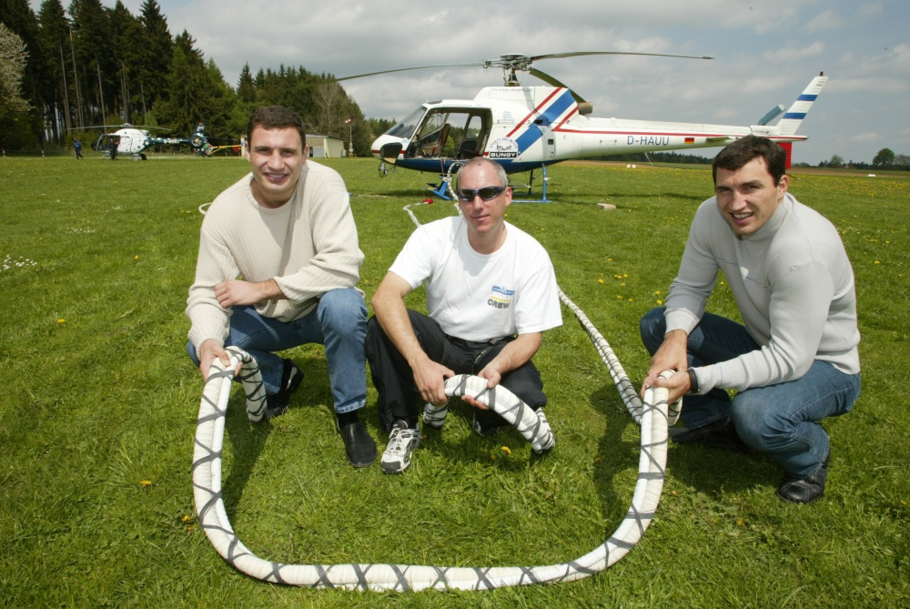 Heli Bungy Jumping with Wladimir and Vitali Klitschko by Sports Unlimited / Stefan Roos and AJ Hackett Bungy Germany